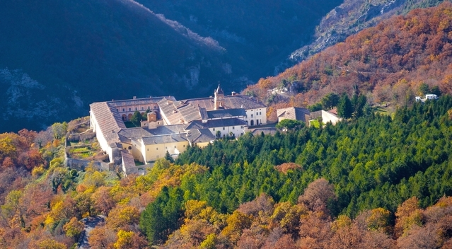 Certosa di Trisulti, Collepardo, Lazio, Italy